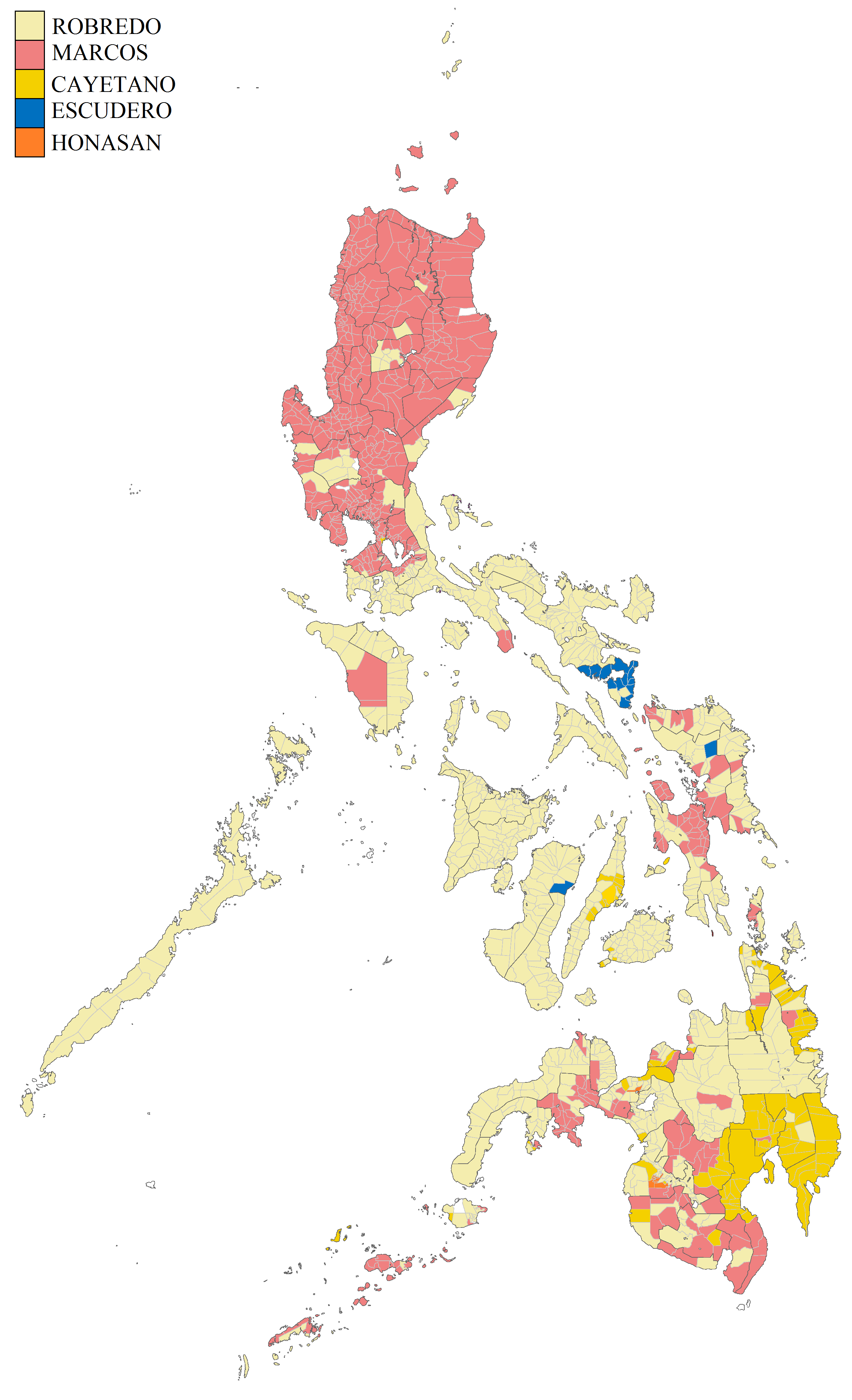 Municipal level breakdown of the vice presidential race